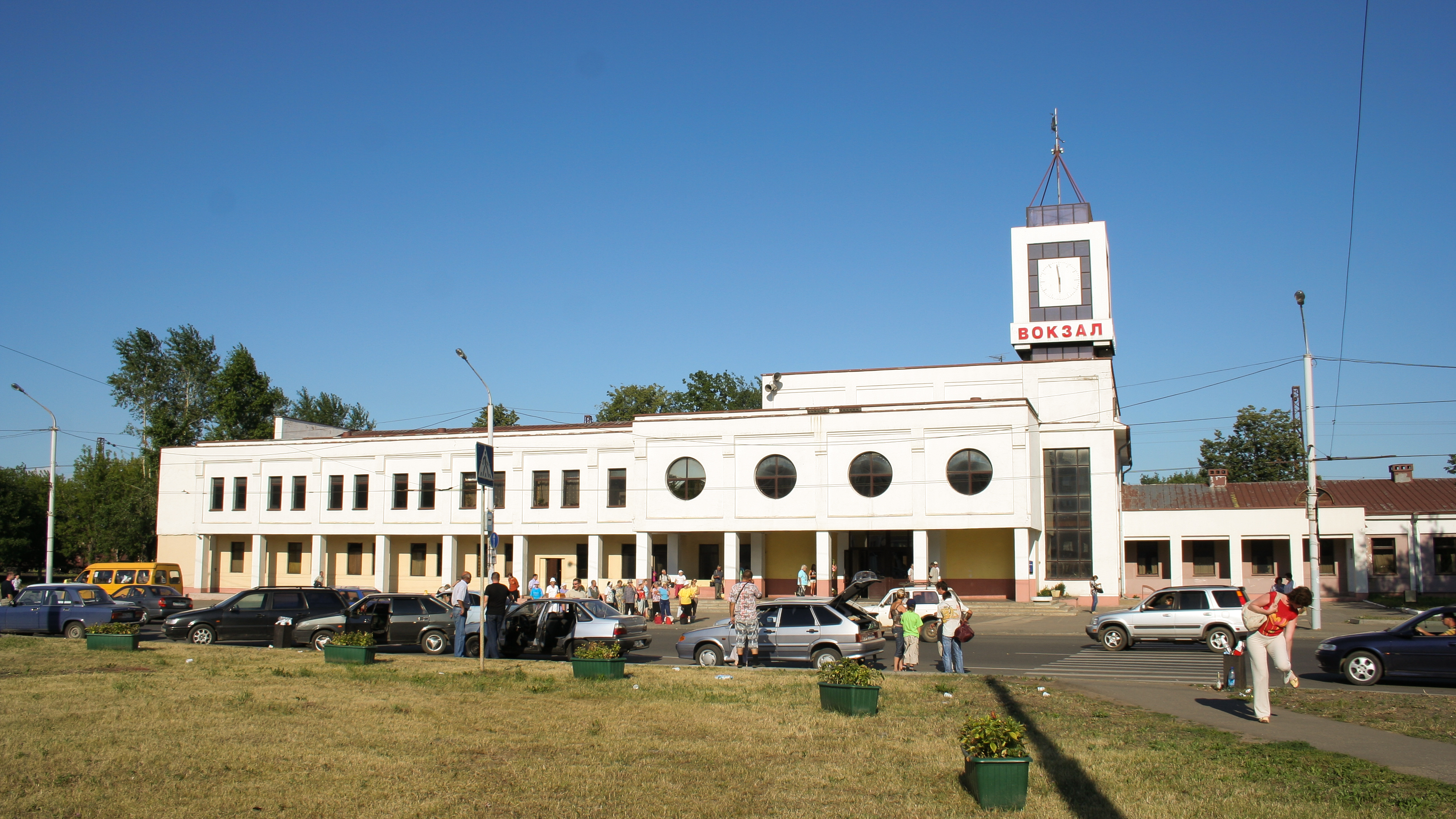 Main train station in Kostroma, Russia